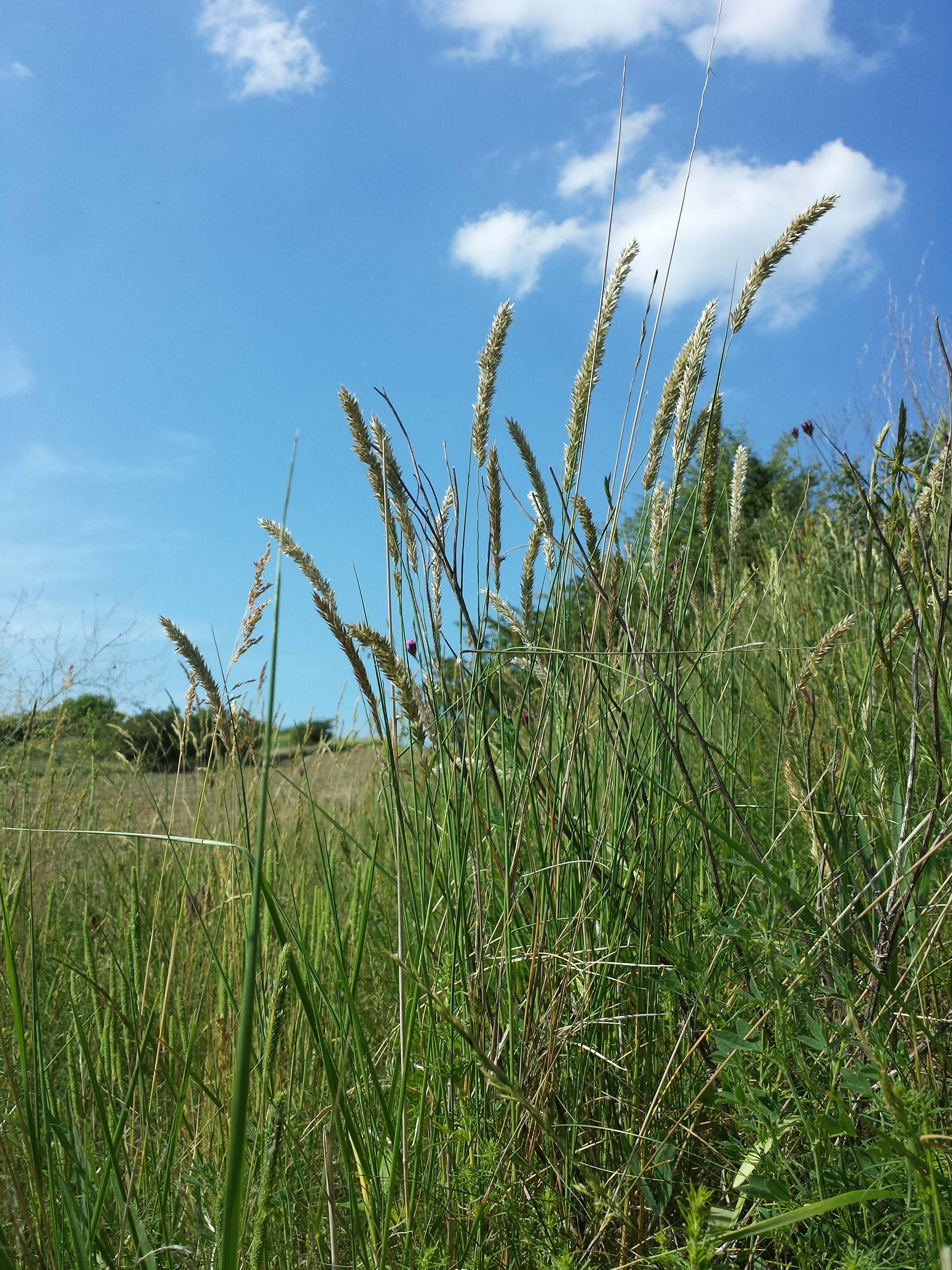 Habitus Taxonym: Melica transsilvanica (subsp. transsilvanica) ss Fischer et al. EfÖLS 2008 ISBN 978-3-85474-187-9 Location: "In der Hölle" near Wetzleinsdorf, district Korneuburg, Lower Austria - ca. 250 m a.s.l. Habitat: semi-dry grassland